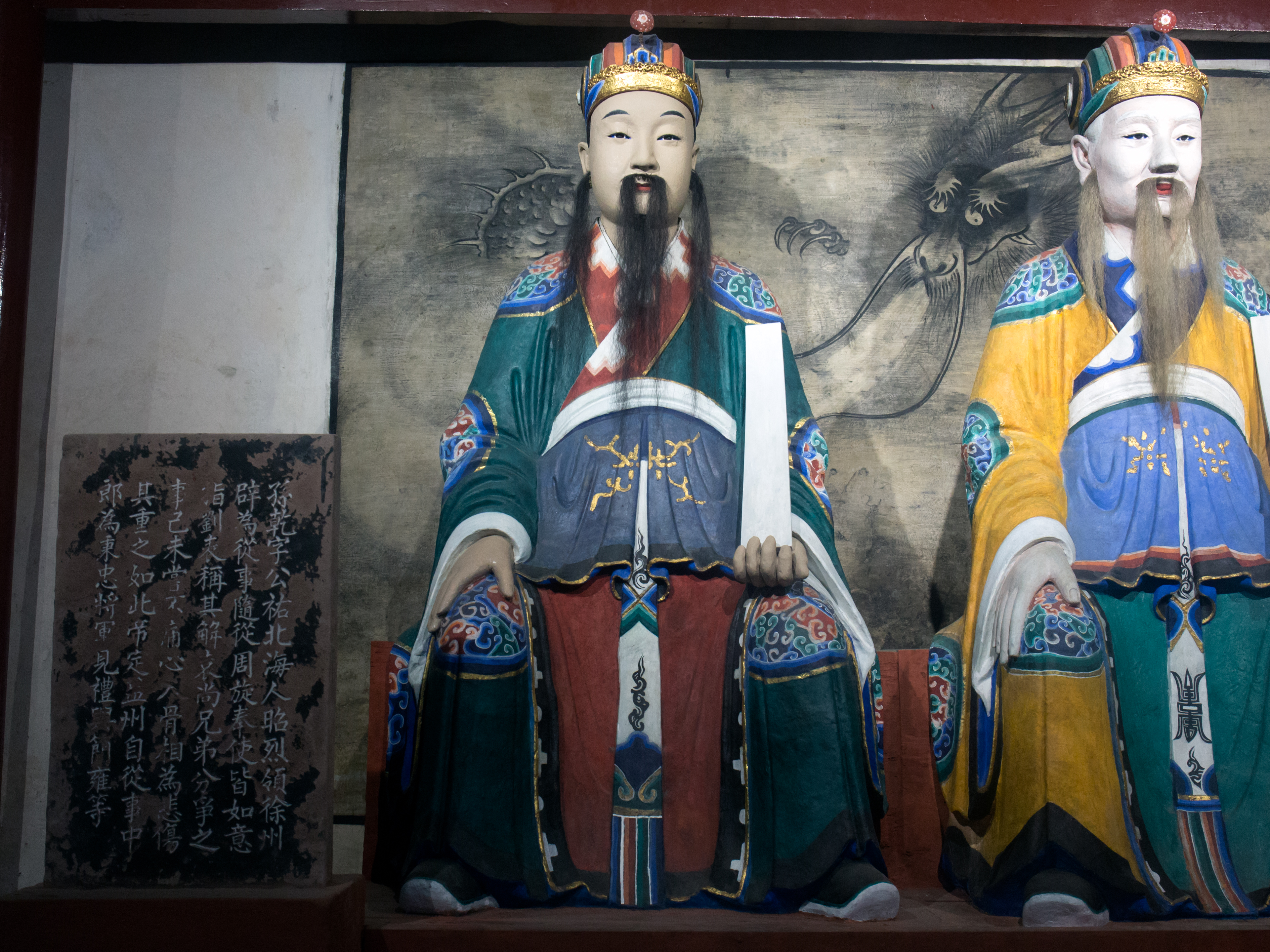 Sun Qian (孫乾)